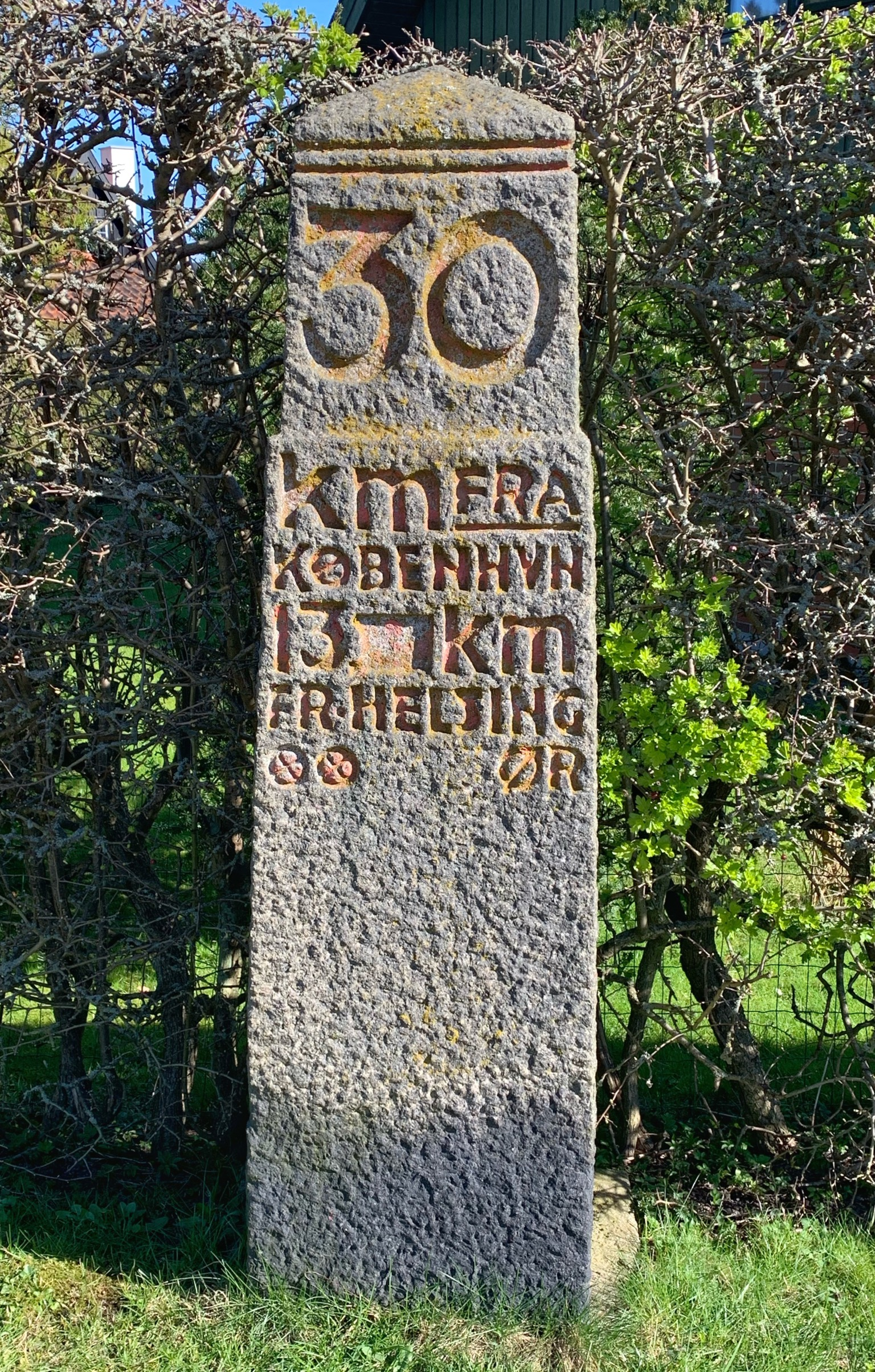 Milestone at Strandvejen 30 km from Copenhagen and 13 km from Elsinore just north of Nivå harbour